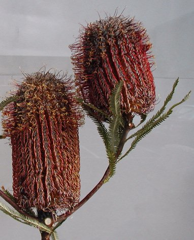 Banksia brownii blooms, cut. Photo Cas Liber (Sept 04)